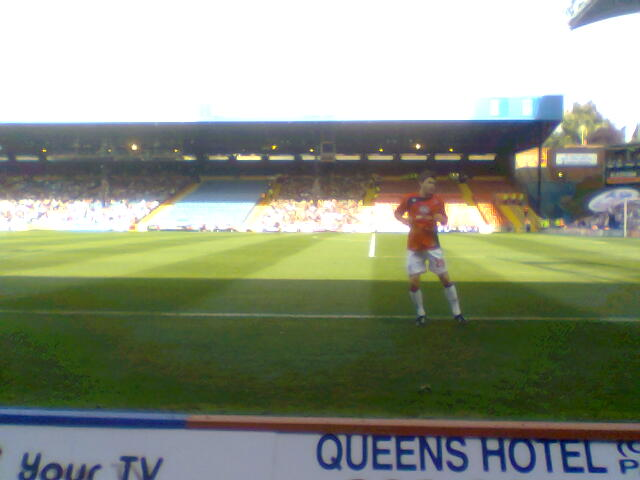 Crystal Palace F.C. midfielder John Oster. Taken on 20 September 2008.